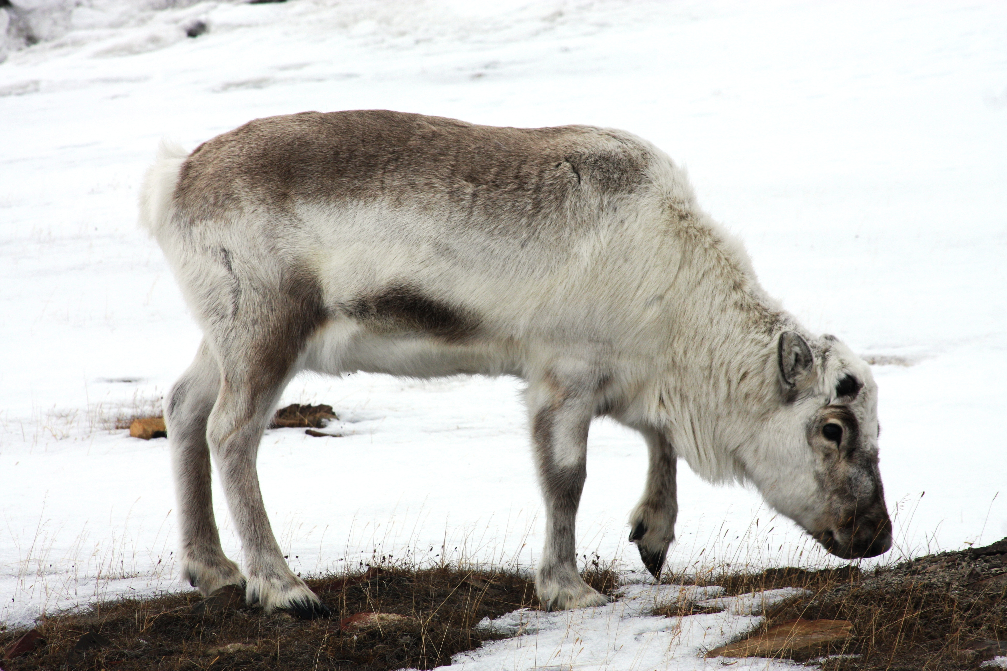 Svalbard Reindeer near Longyearbyen